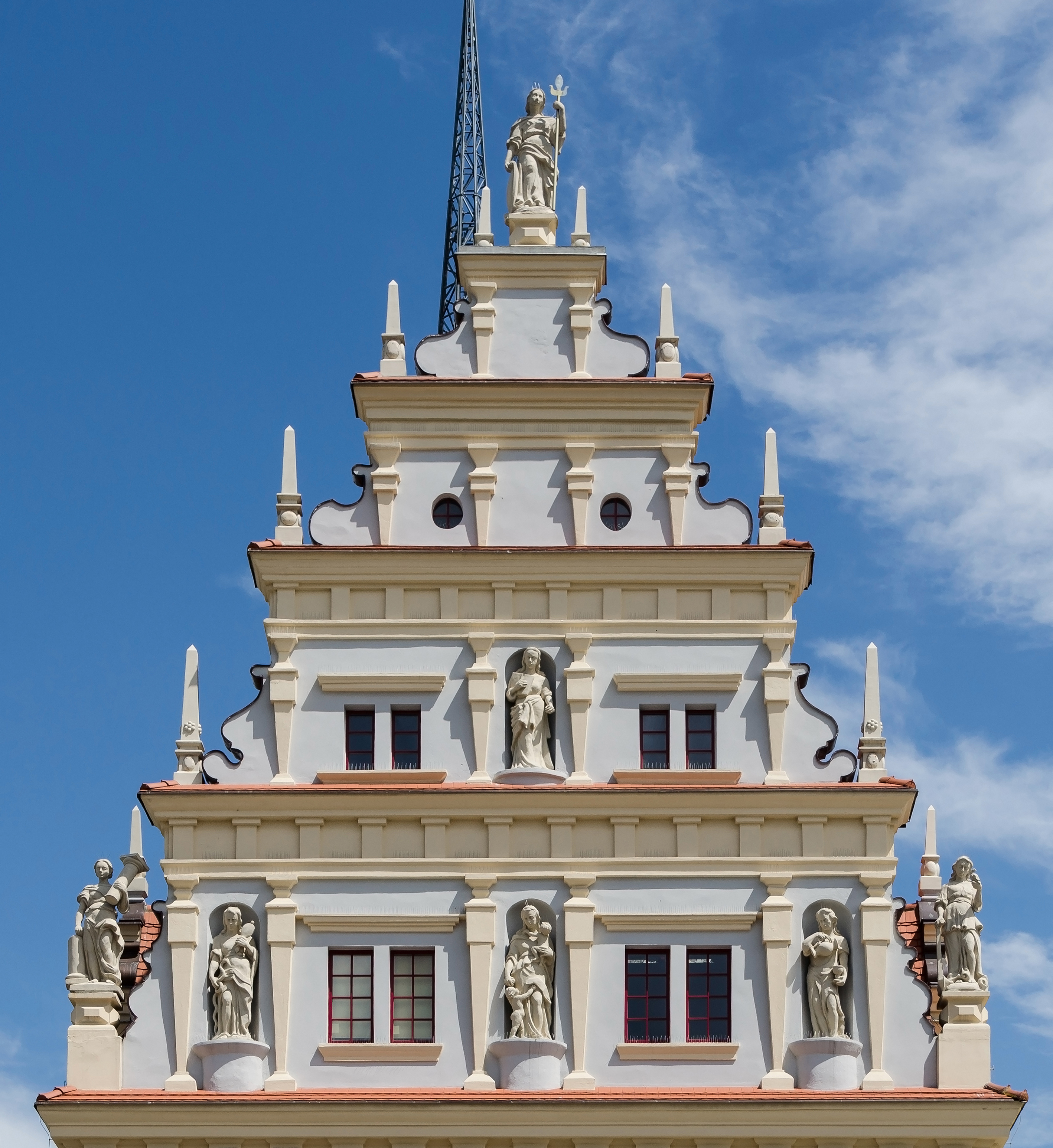 City Scales House in Nysa, gable